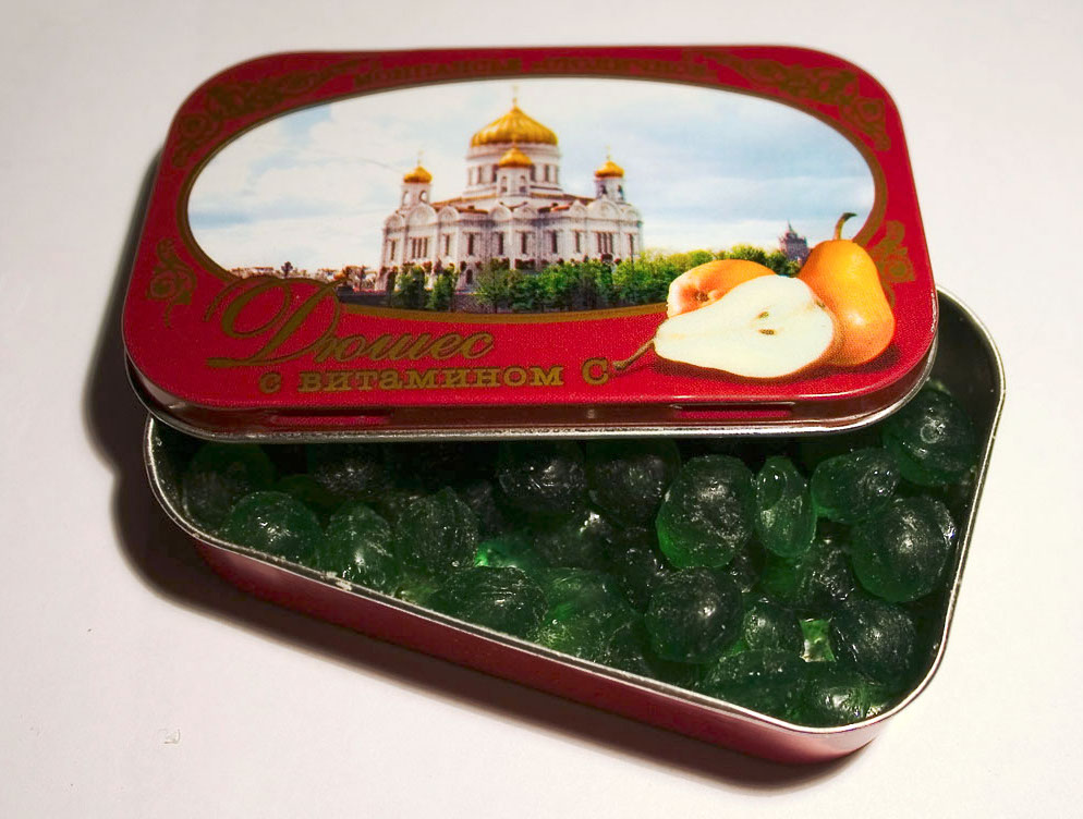 Fruit drops in the metallic box.